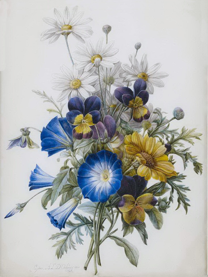 Botanical painting by Princess Adélaïde of Orléans (1777-1847)